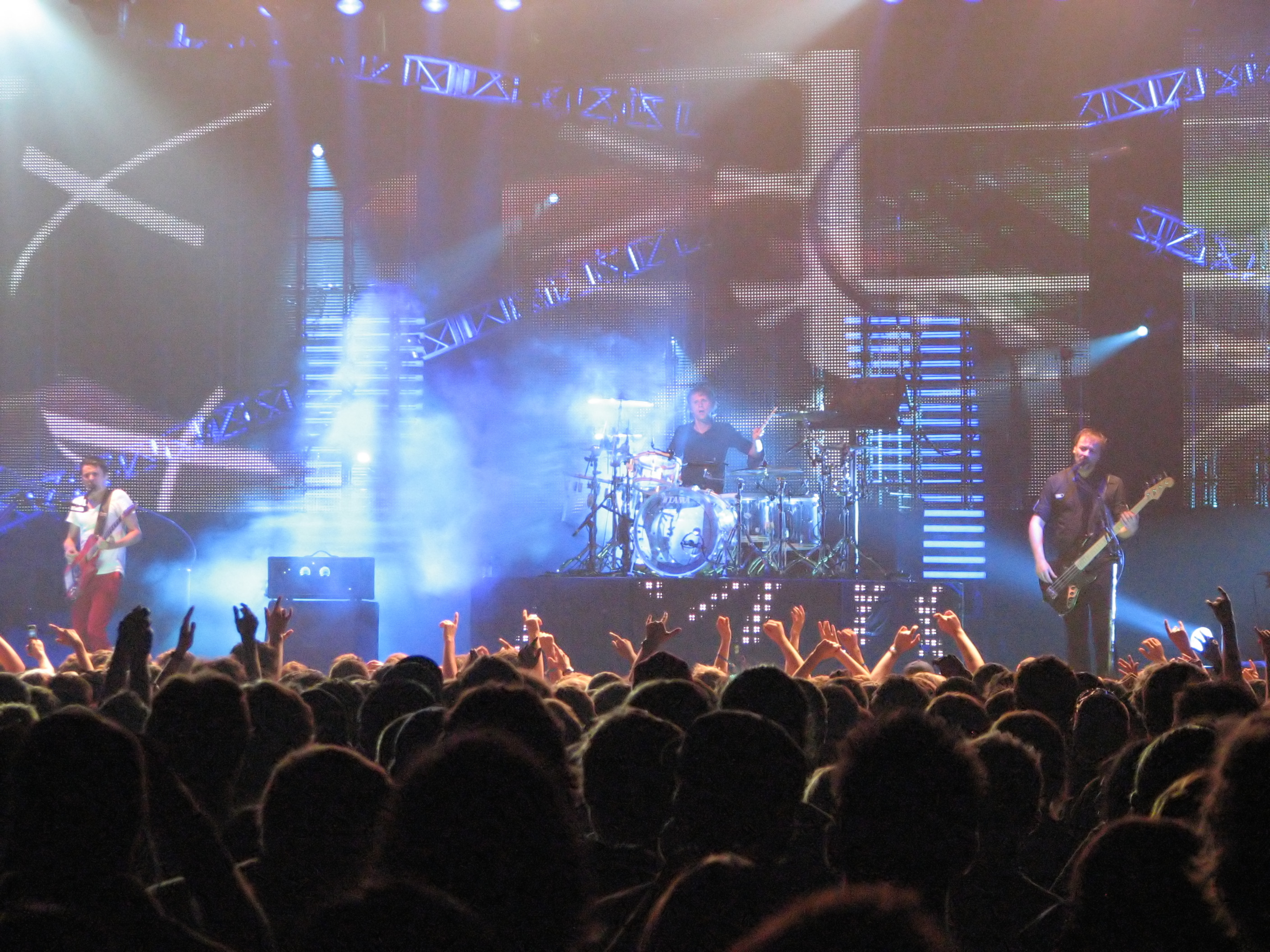 Boarisch: Muse wia's in Toronto spün.